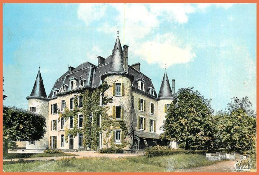 showing the house when it was still used by the family de la Vernette